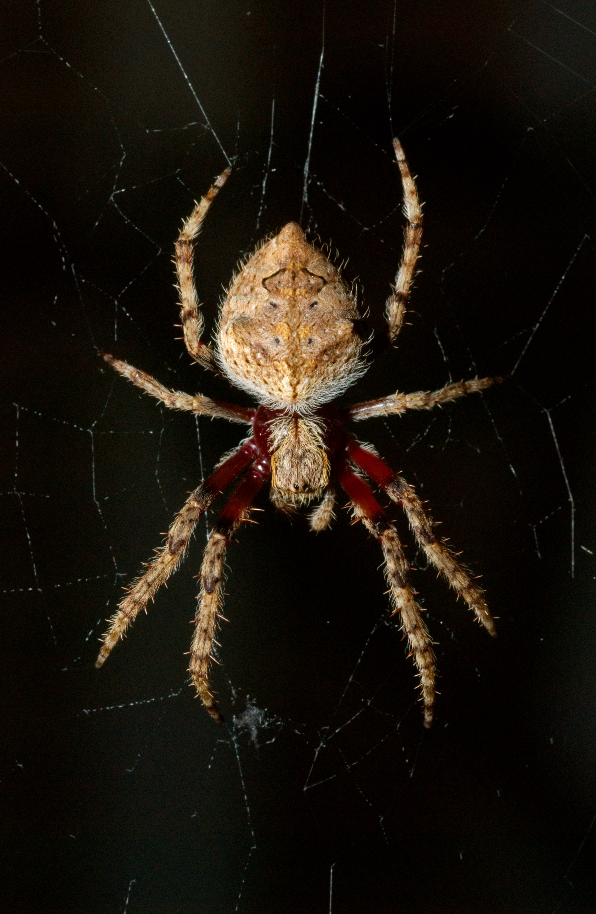 Australian garden orb weaver spider ( Eriophora transmarina) closeup shot at night. Ingle Farm, South Australia